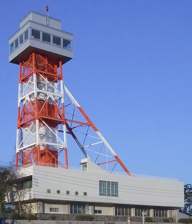 Ube Coal Museum, Tokiwa Park, Norisada, Ube, Yamaguchi prefecture, Japan.